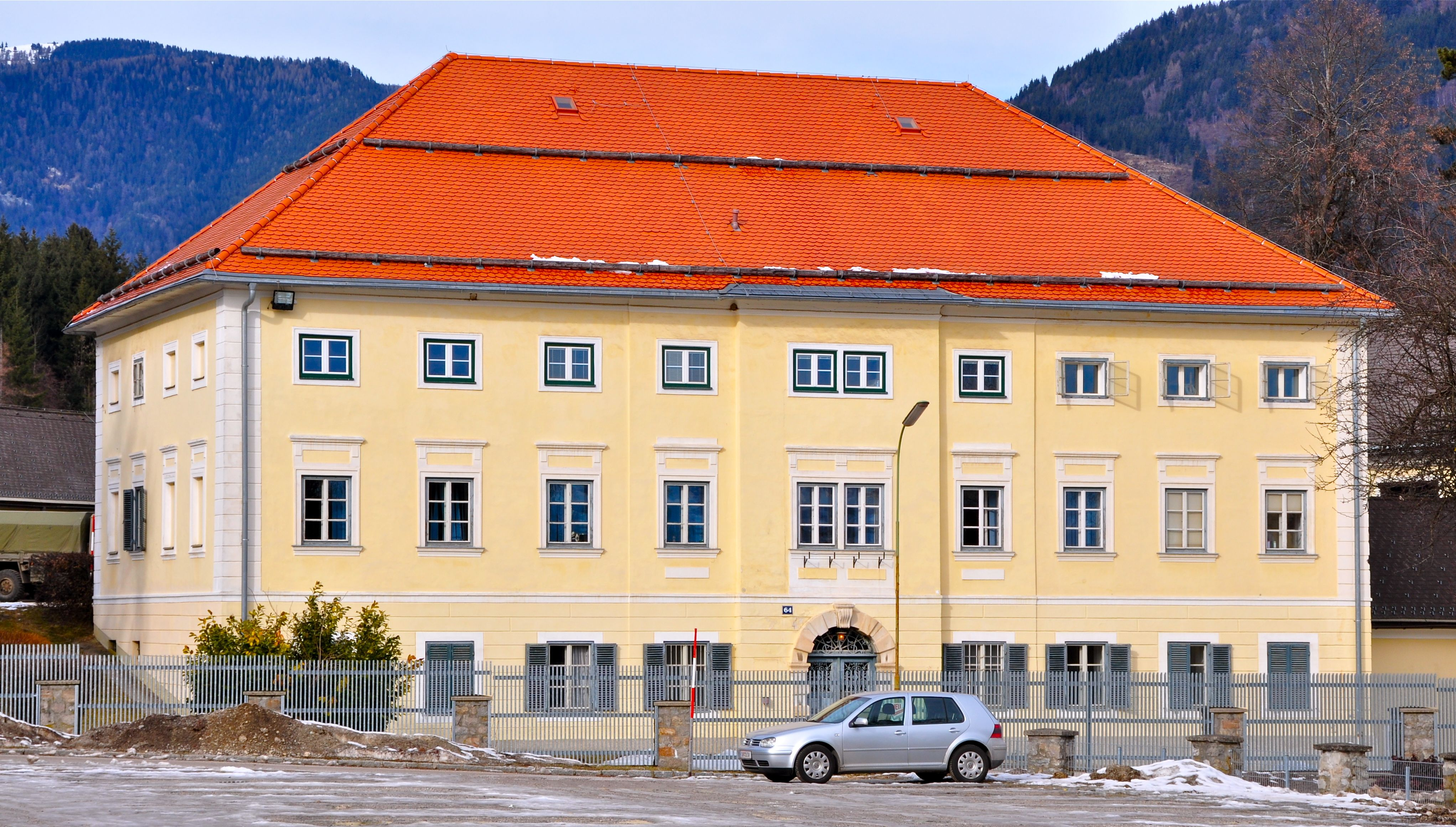 Army barracks «Hensel» in Obere Fellacher Strasse #64, municipality Villach, Carinthia, Austria, EU